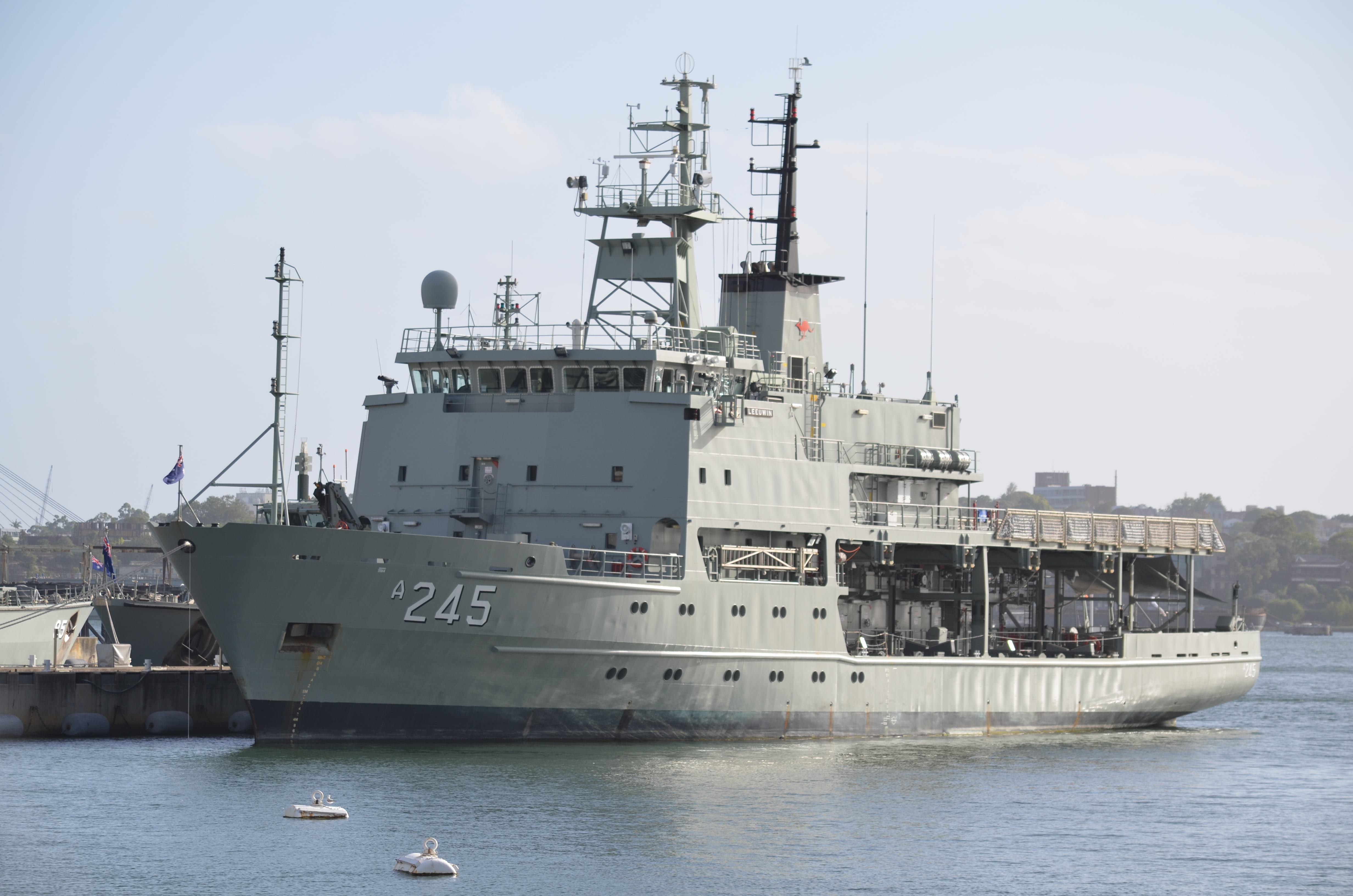 The survey ship HMAS Leeuwin berthed at HMAS Waterhen in Sydney